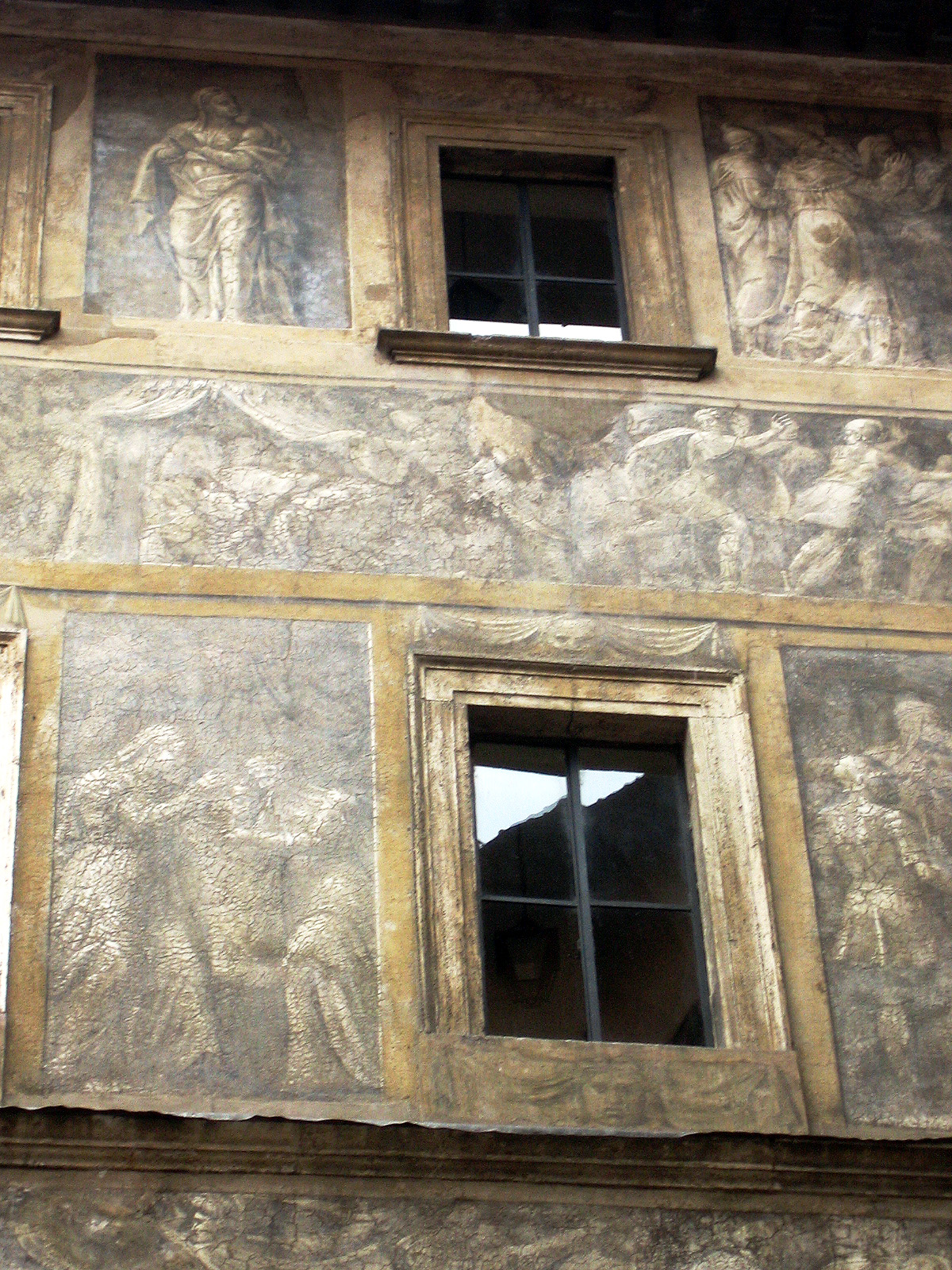 Frescoed in black and white around 1523 by Polidoro da Caravaggio and his friend Maturino da Firenze, this facade stands in a quiet piazza just off piazza Navona.